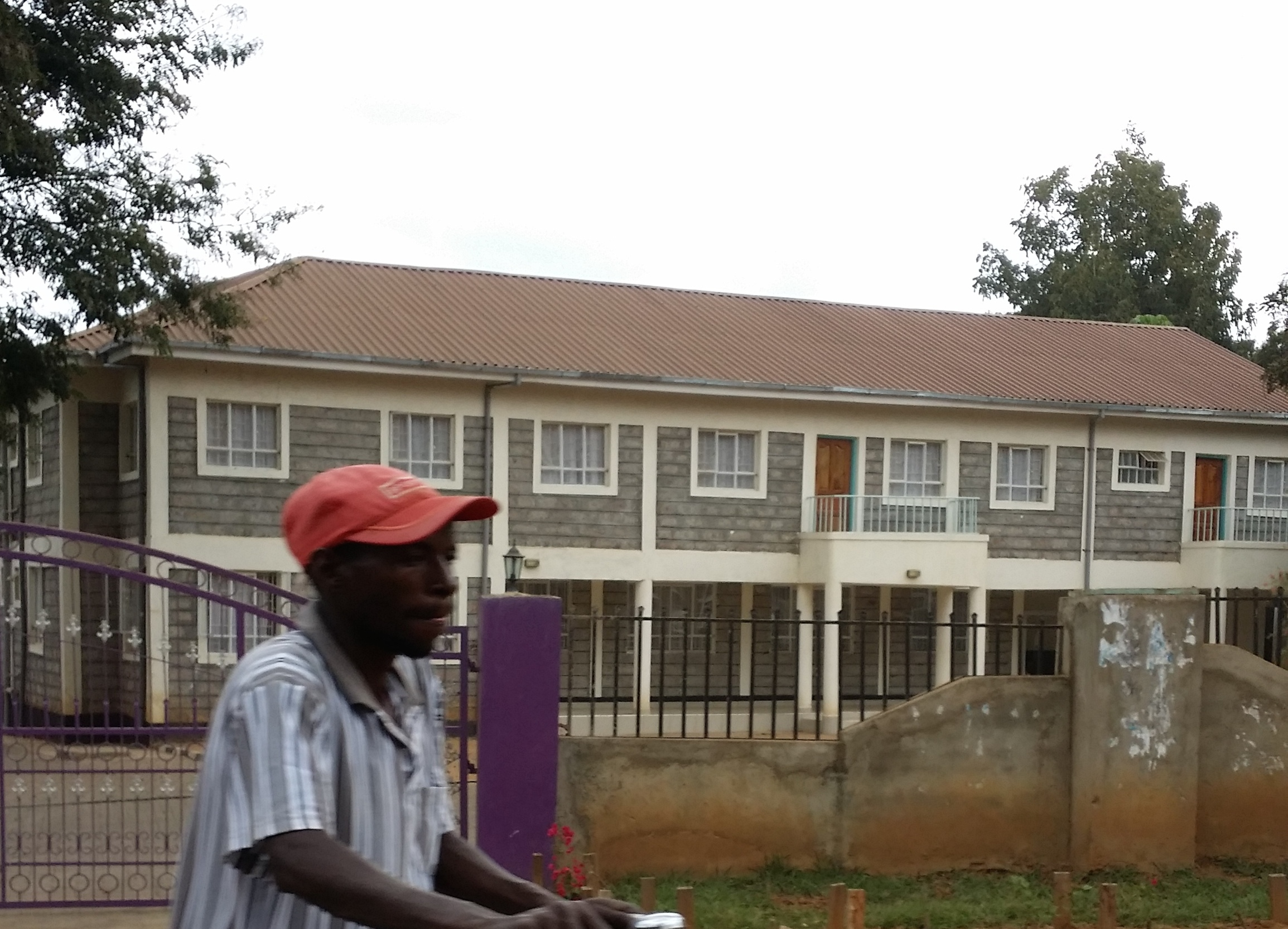 County Assembly of Kitui County